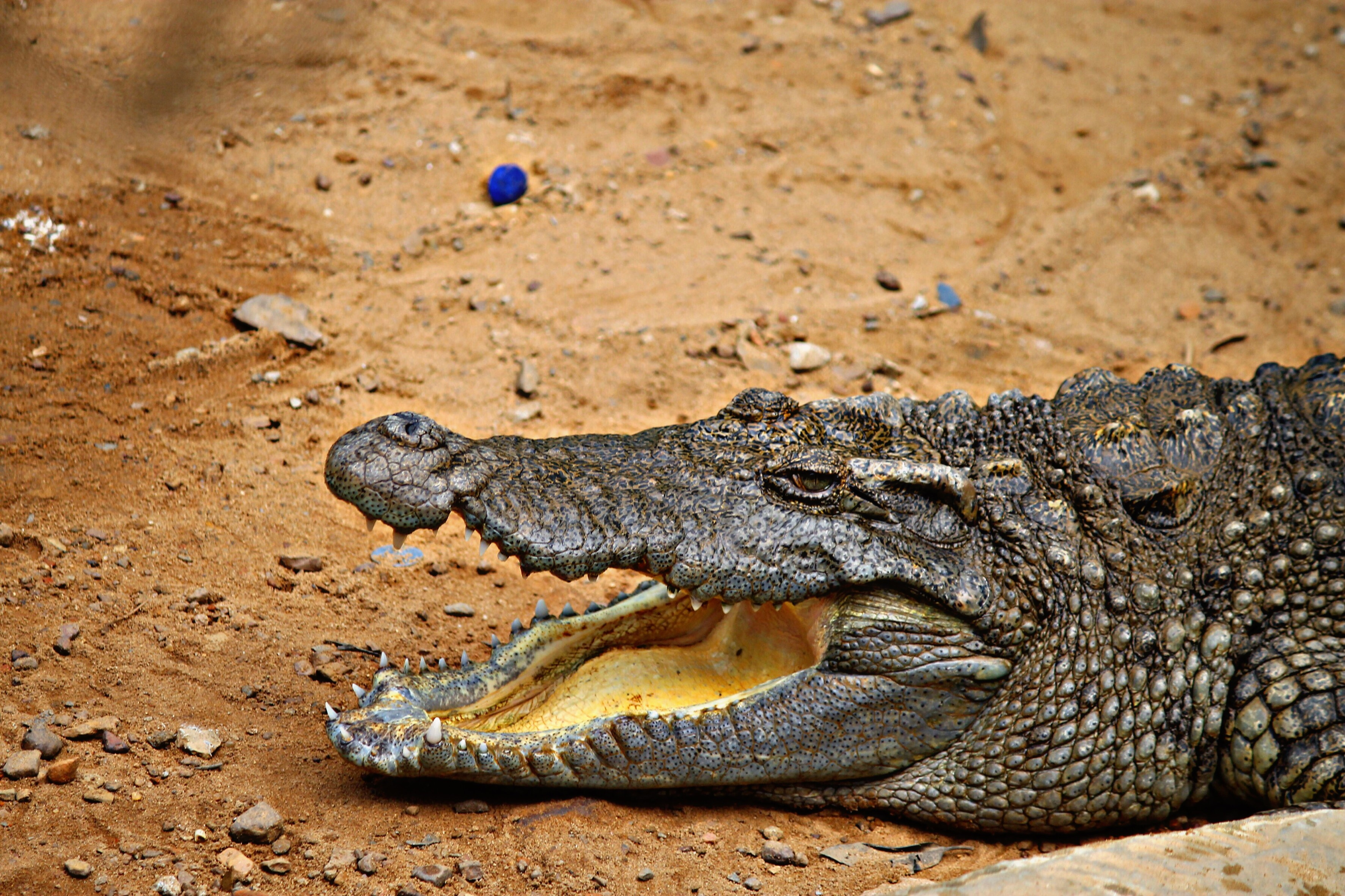 Nandankanan Wildlife